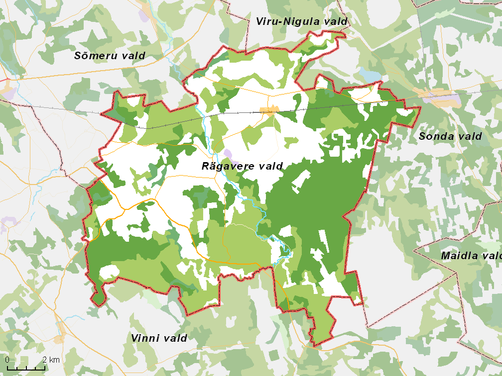 Map of municipality in Estonia